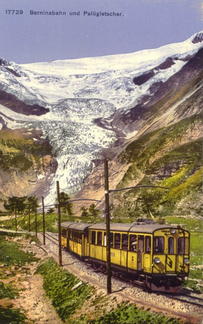 The Palü Glacier around 1910 with the Bernina Railway. Post-colored postcard from Verlag Wehrli, Kilchberg